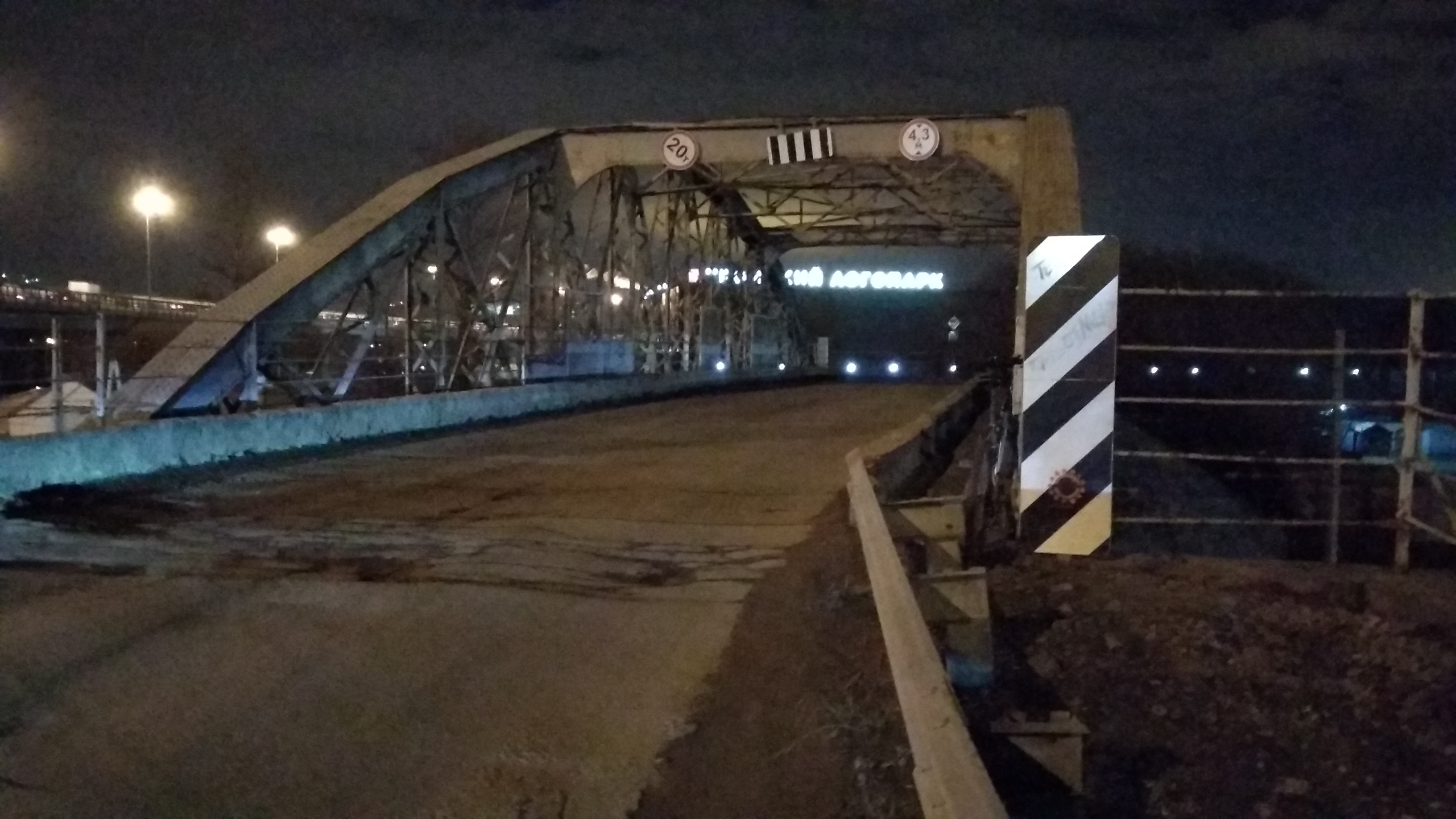 Obukhovsky overpass